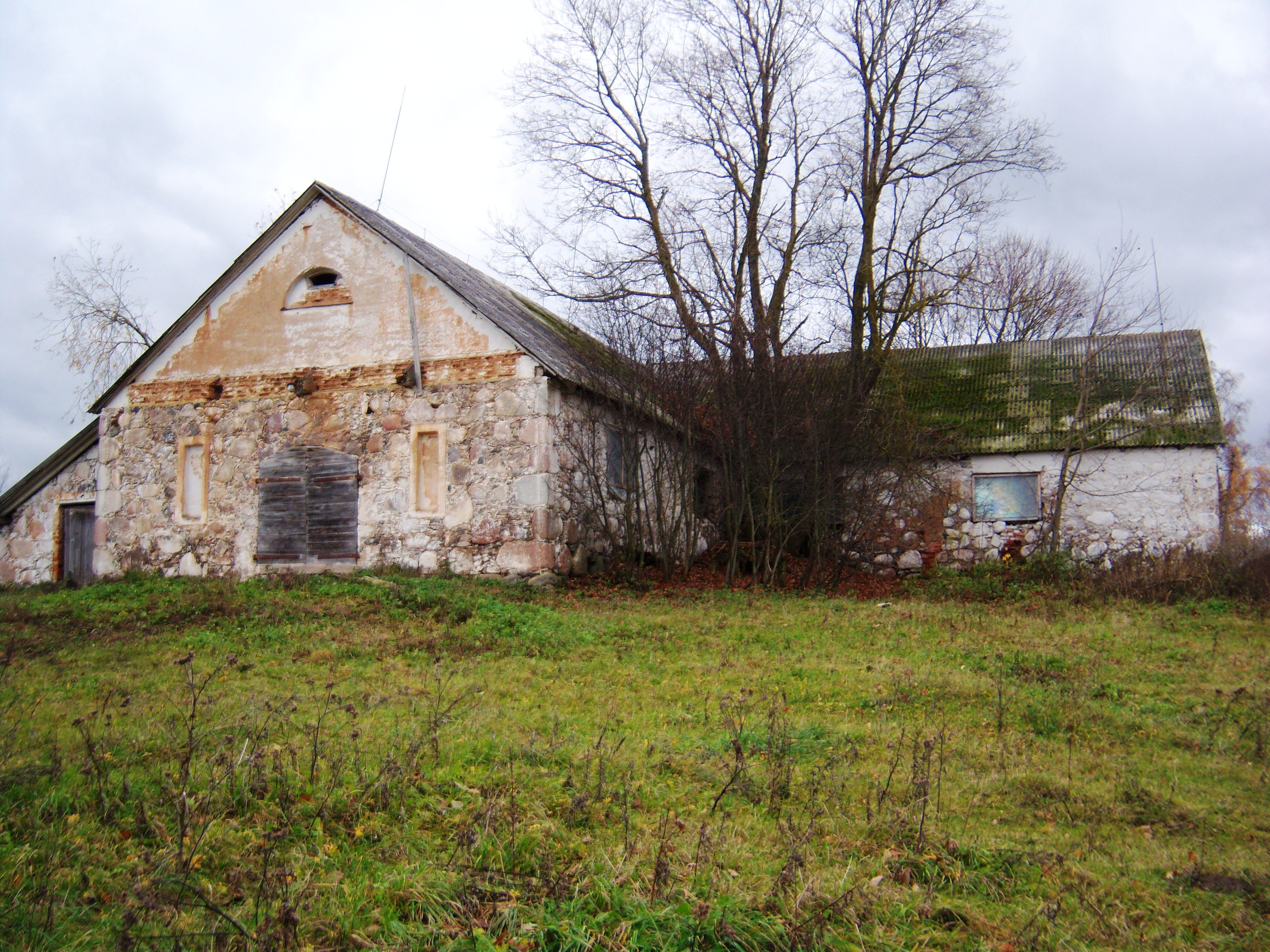 Former manor in Zasinyčiai, Kupiškis District, Lithuania